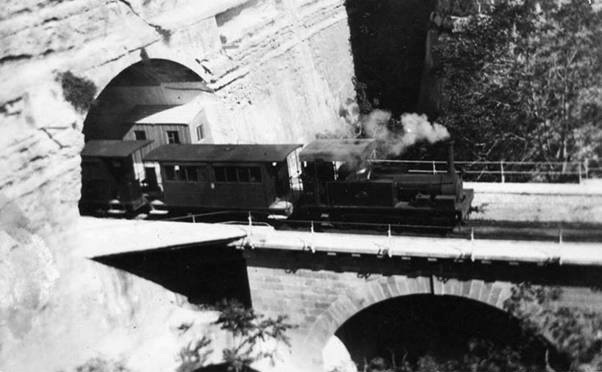 Train of Malta Railway leaving Valetta station and crossing inner ditch of Valetta fortifications.